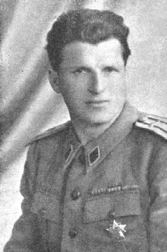 Mirko Jerman (1912-1987), Slovene partisan anf officer.